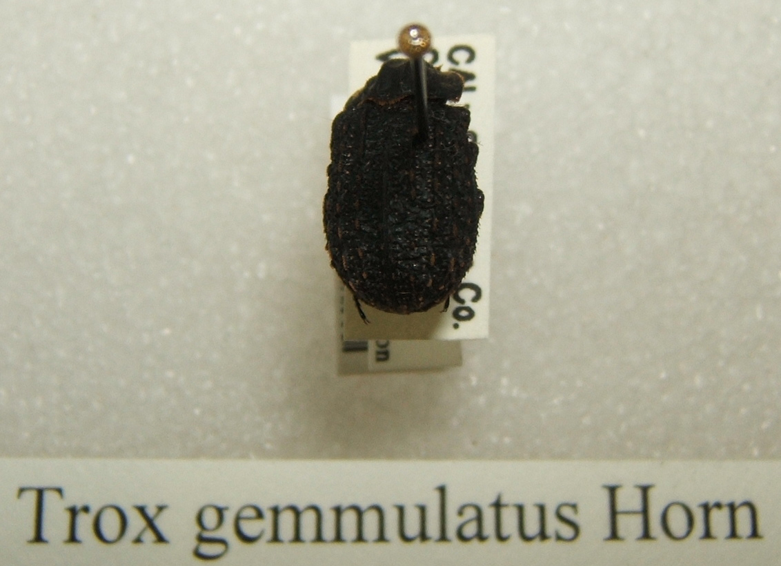 Trox gemmulatus adult taken by Shawn Hanrahan at the Texas A&M University Insect Collection in College Station, Texas. Cropped version: Trox gemmulatus sjh.cropped.jpg